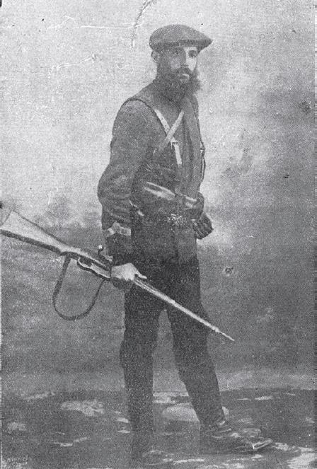 Portrait of IMARO voivoda Dame Popov